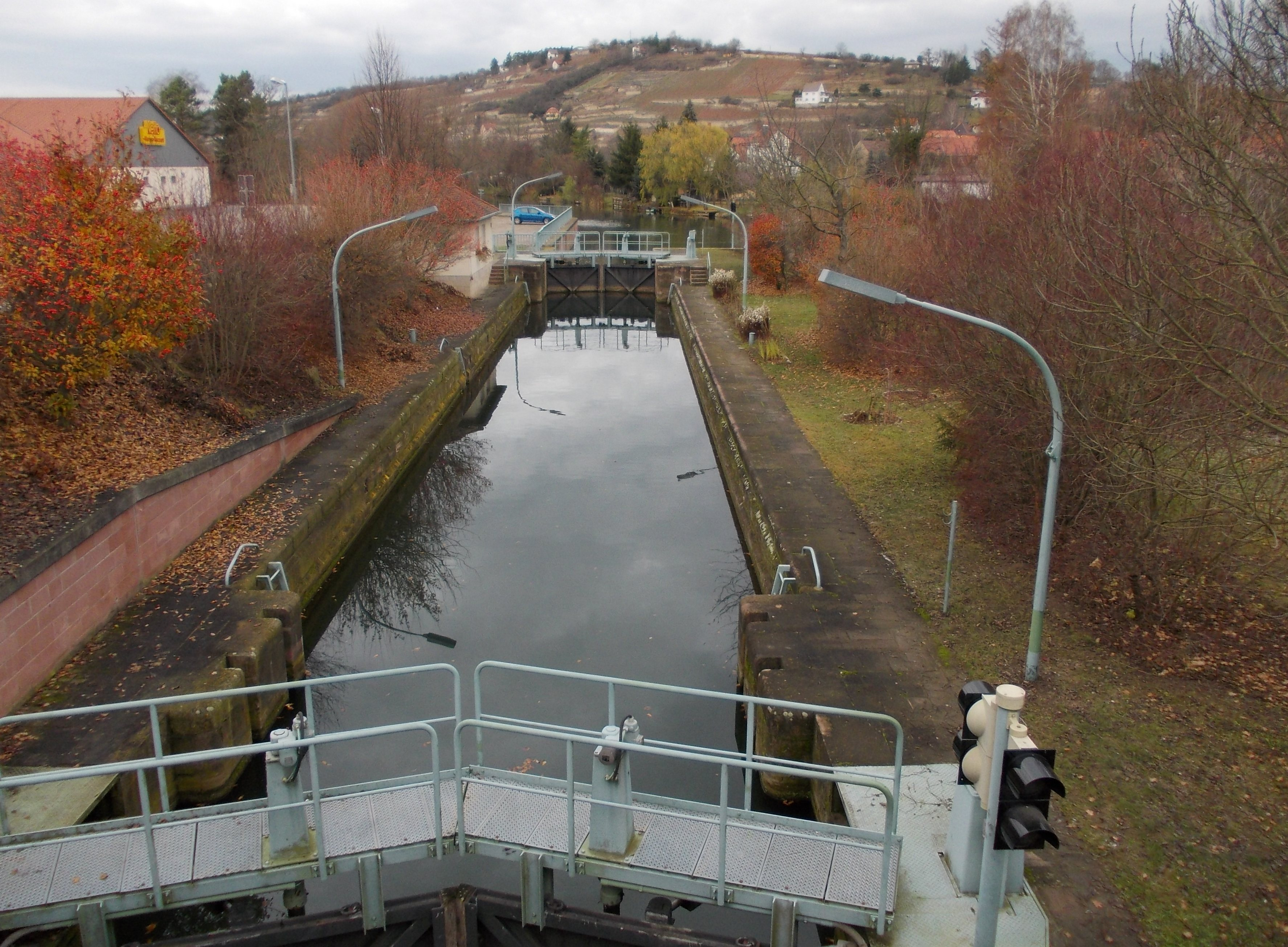 Lock on the Unstrut river at Freyburg (district of Burgenlandkreis, Saxony-Anhalt)